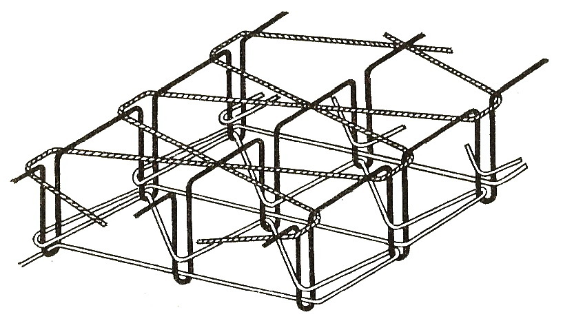 Coverstitch six thread